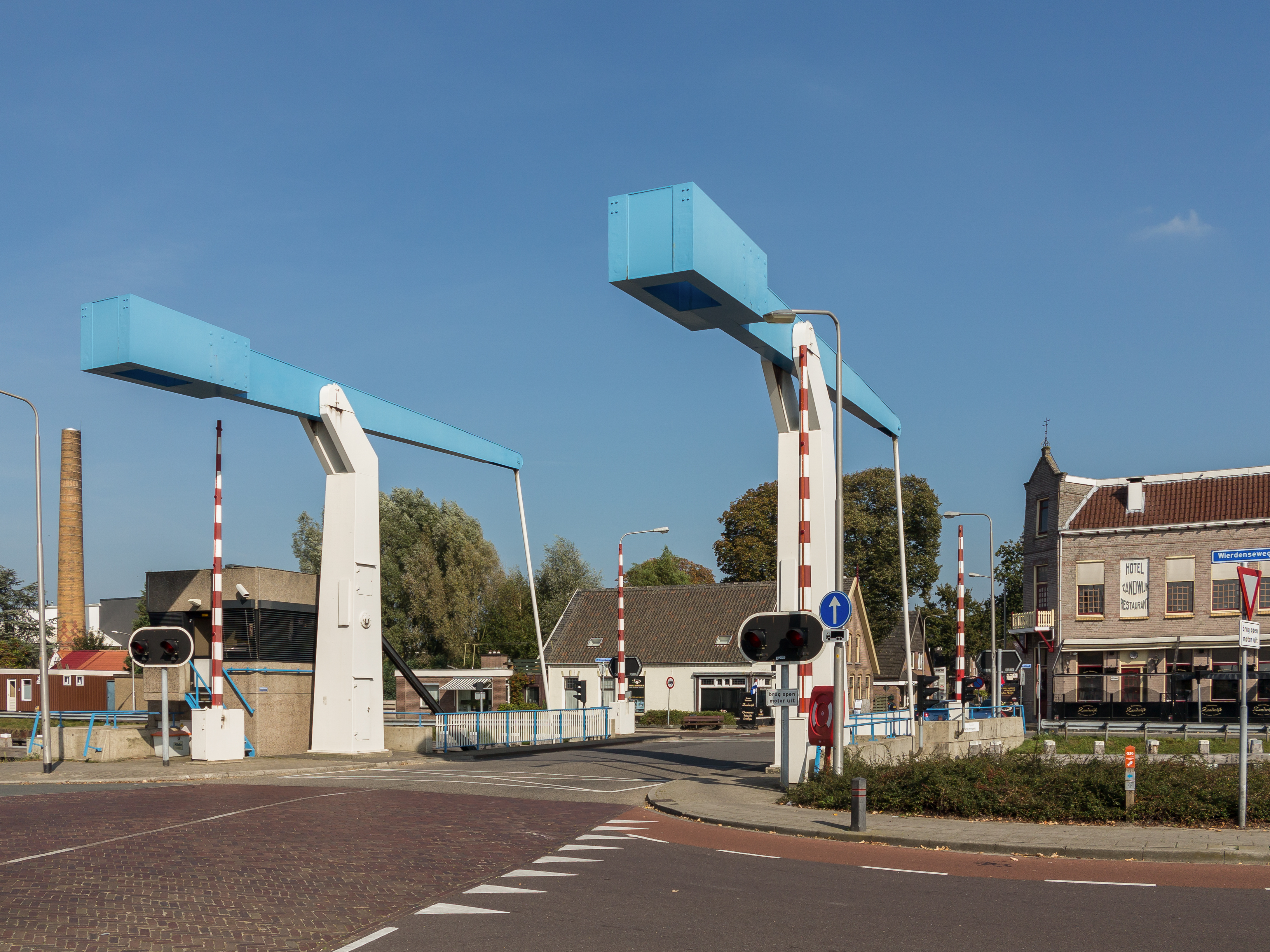 Vriezenveen, drawing bridge in the street